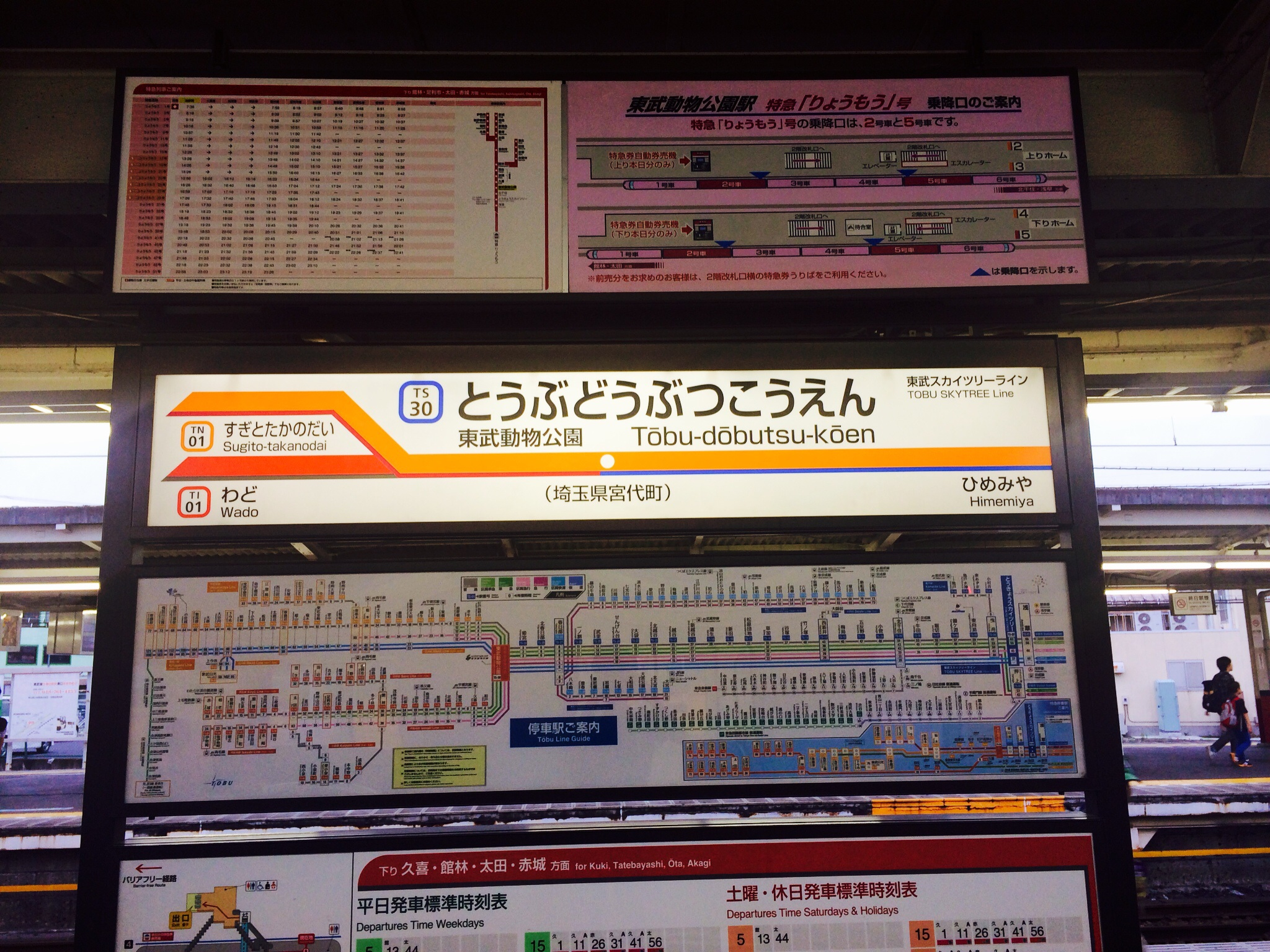 The station sign at Tobu-Dobutsu-Koen Station on the Tobu Skytree and Isesaki Lines